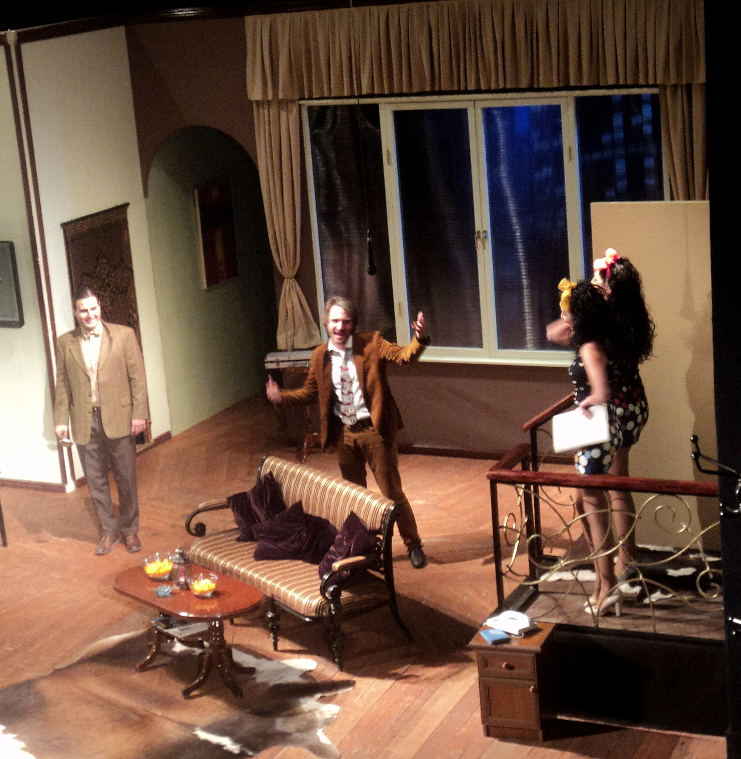 «Կենտ զույգը» ներկայացումը Հ. Ղափլանյանի անվան դրամատիկական թատրոնում